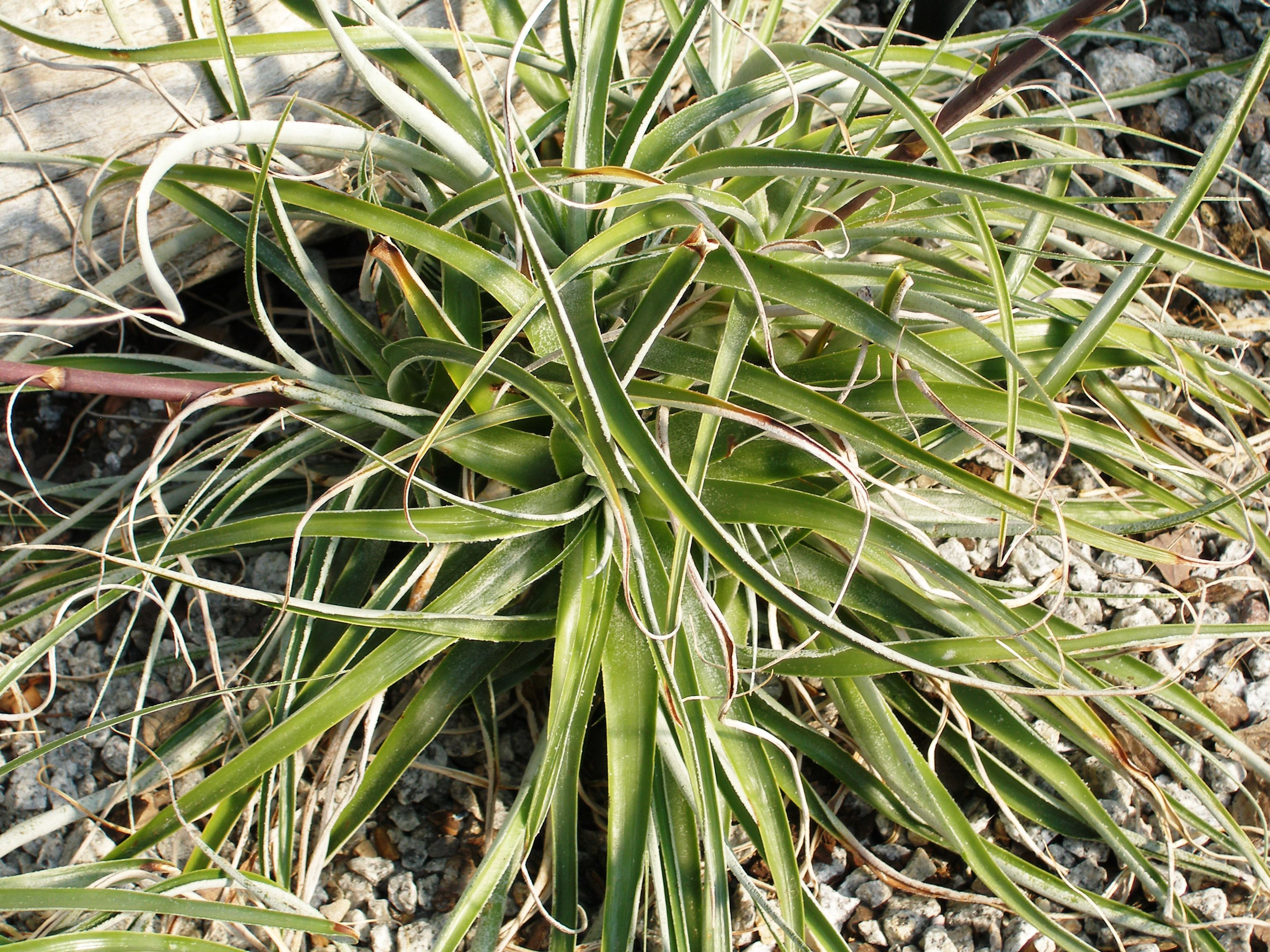 Specimen in cultivation at the Royal Botanic Gardens, Kew, United Kingdom.